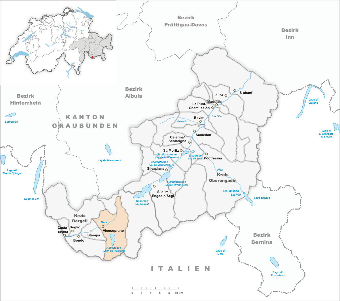 Municipality Vicosoprano